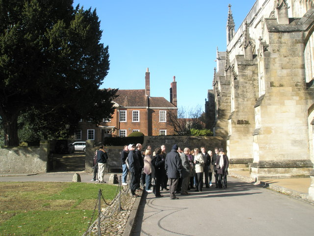 Guided tour outside Winchester Cathedral